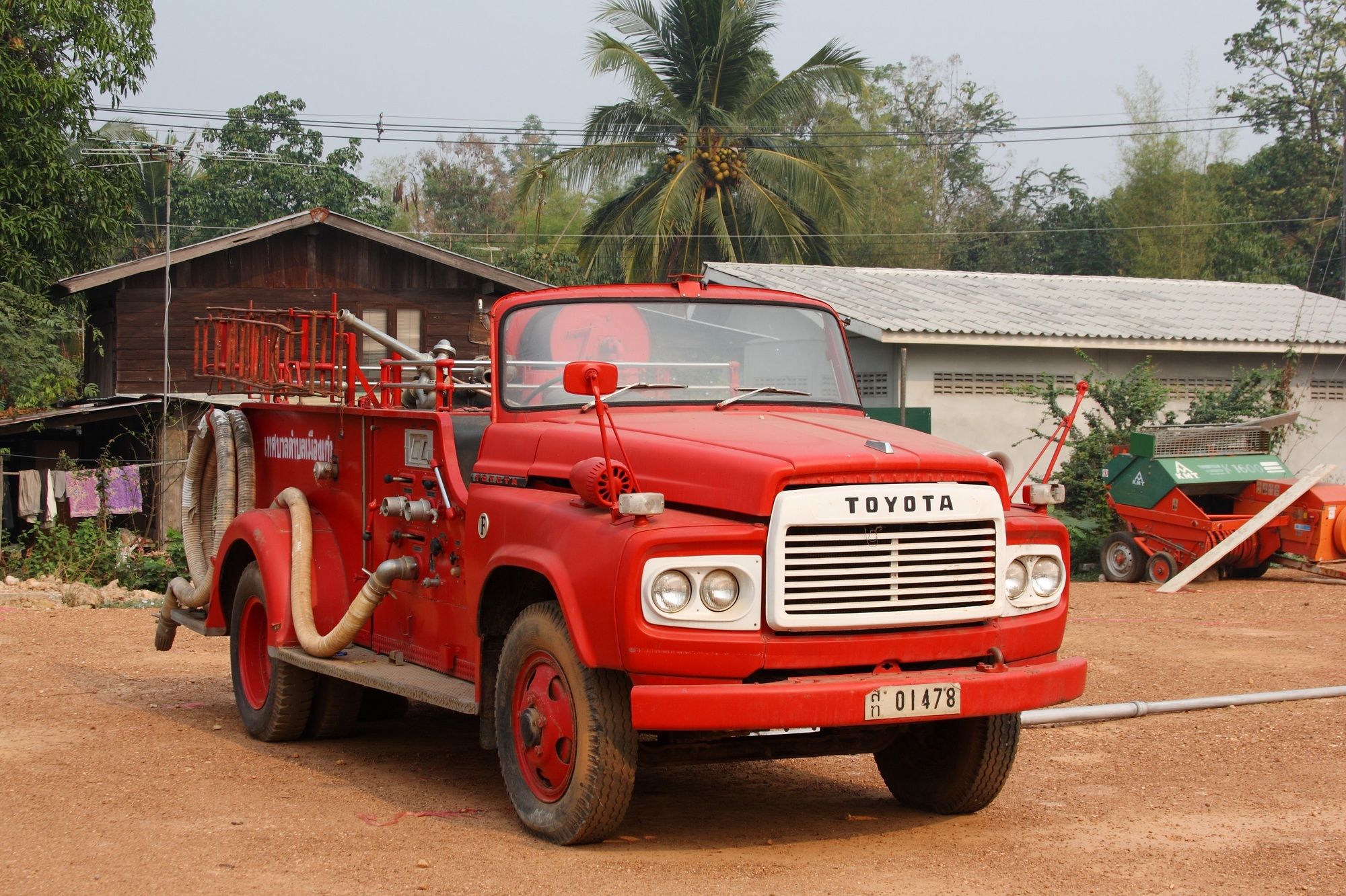 Old fire engine in Sukhothai province, Northern Thailand